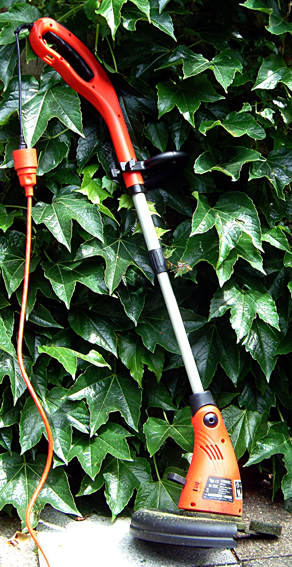 String trimmer